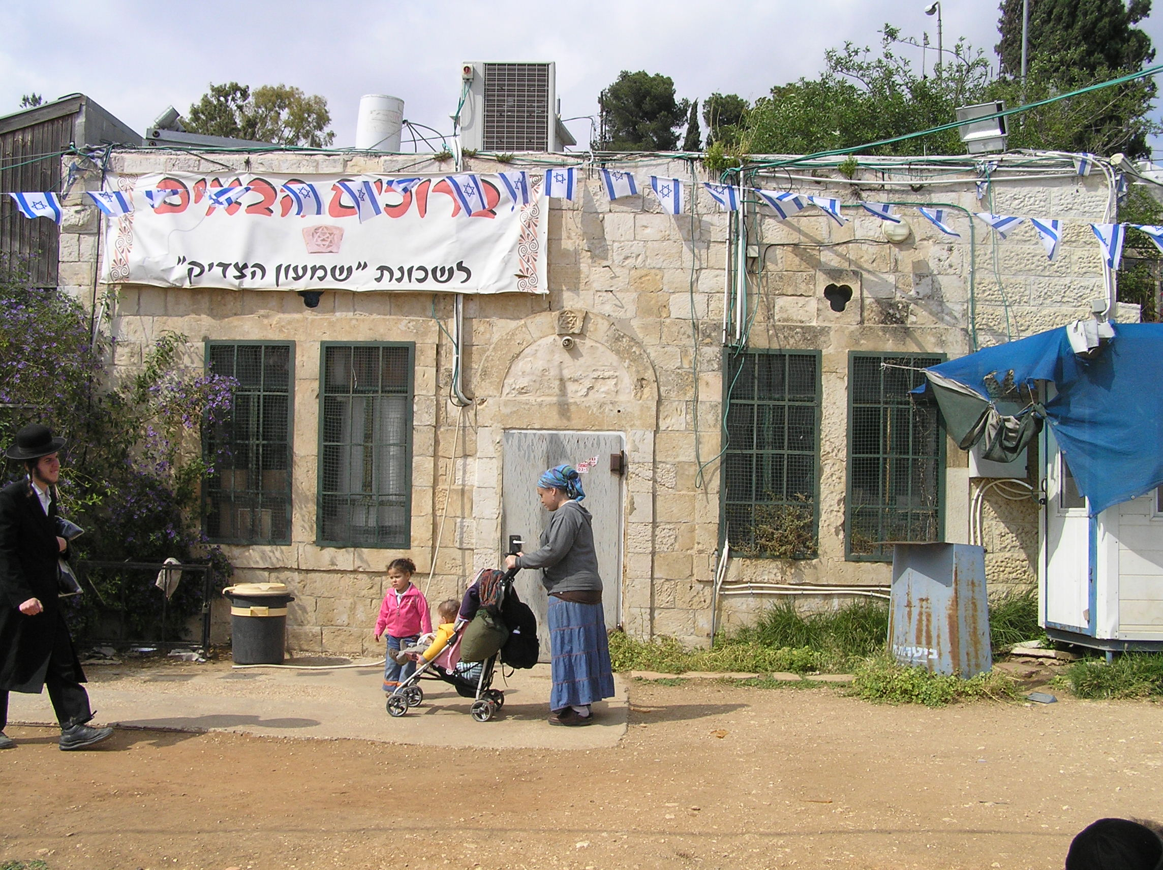 The Synagogue in Shimon HaTzaddik Neighbourhood